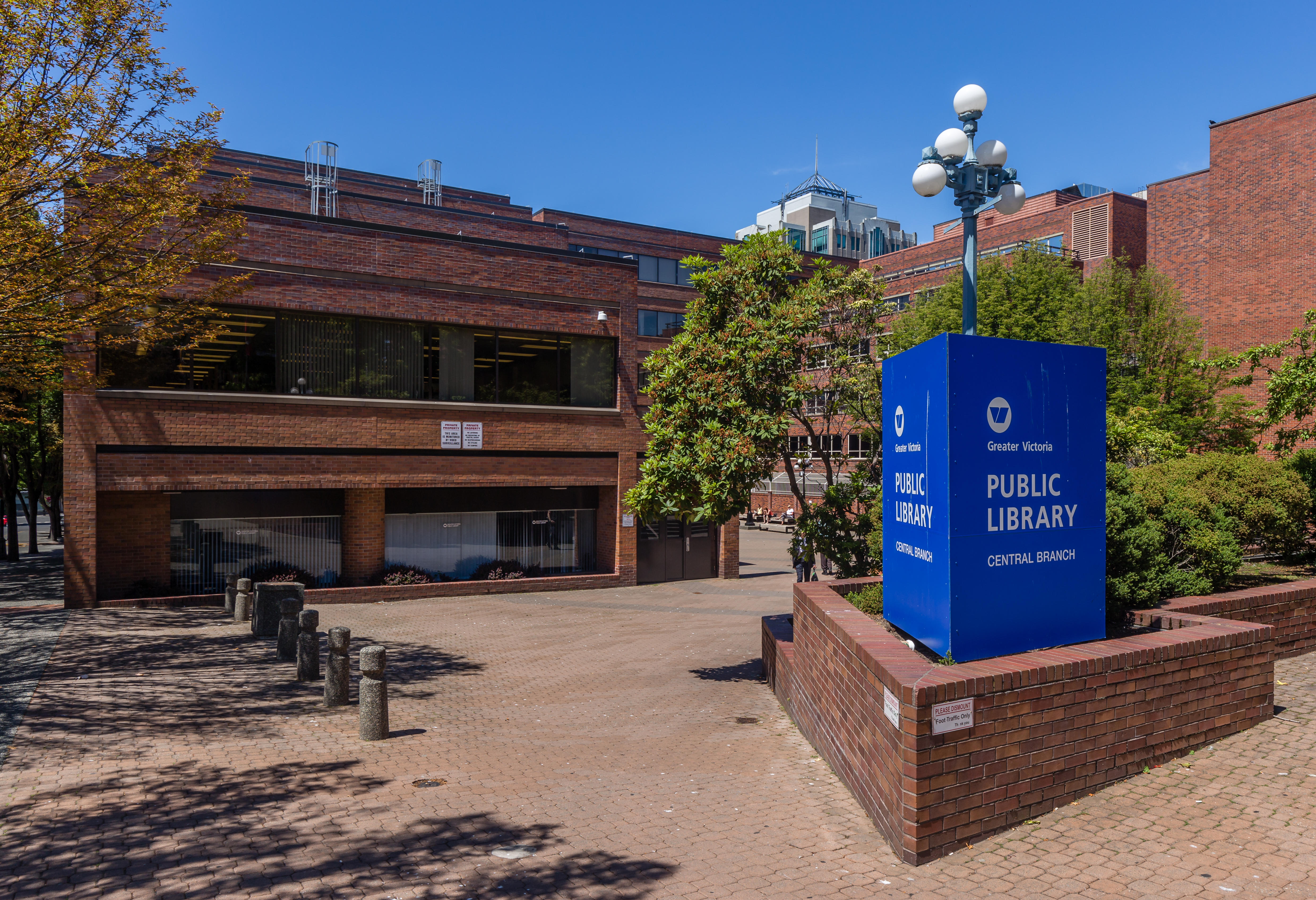 Central Branch of Greater Victoria Public Library, Victoria, British Columbia, Canada